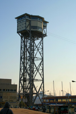 Image of the St.Sebastià tower of Barcelona, Spain.